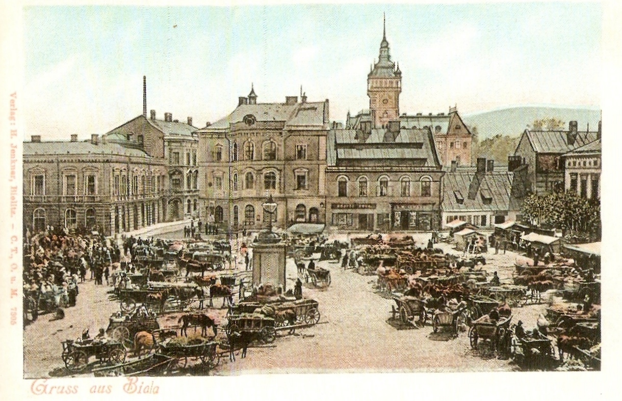 Bielsko-Biała, Poland. Wojska Polskiego Square (south frontage) in 1900.